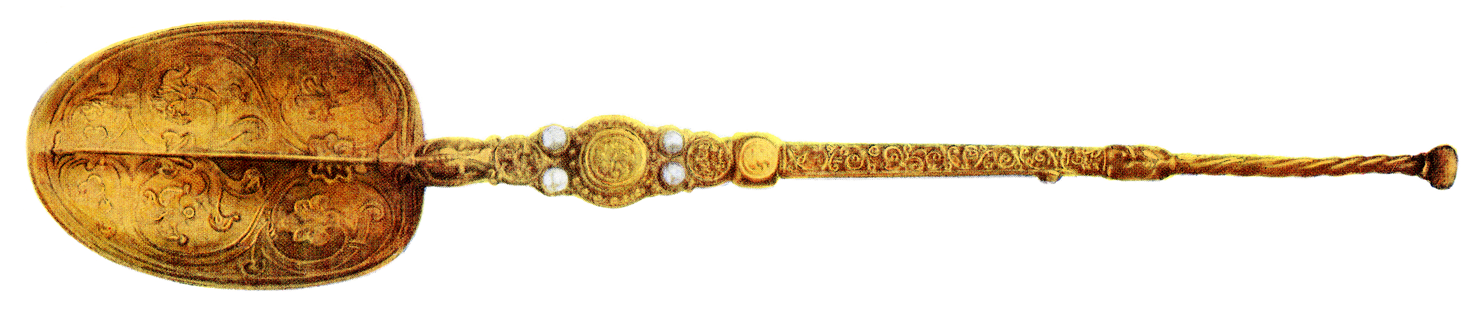 'The Anointing Spoon'